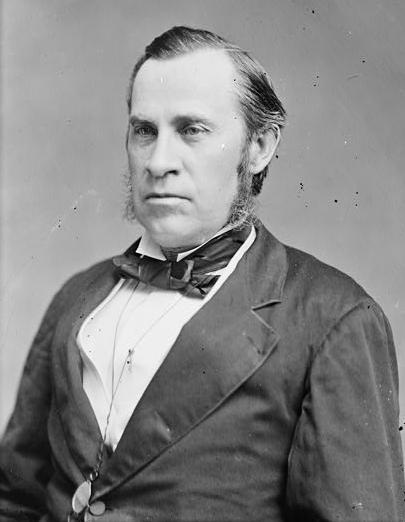 Harris, Hon. B.W. of Mass.